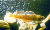 Etheostoma nuchale